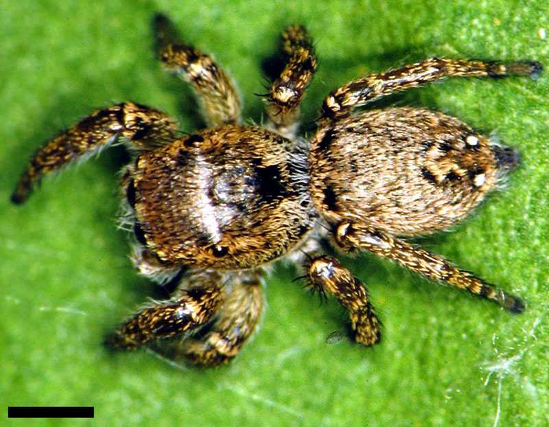 Female Habronattus brunneus jumping spider from vicinity of Gainesville, Alachua County, Florida, USA